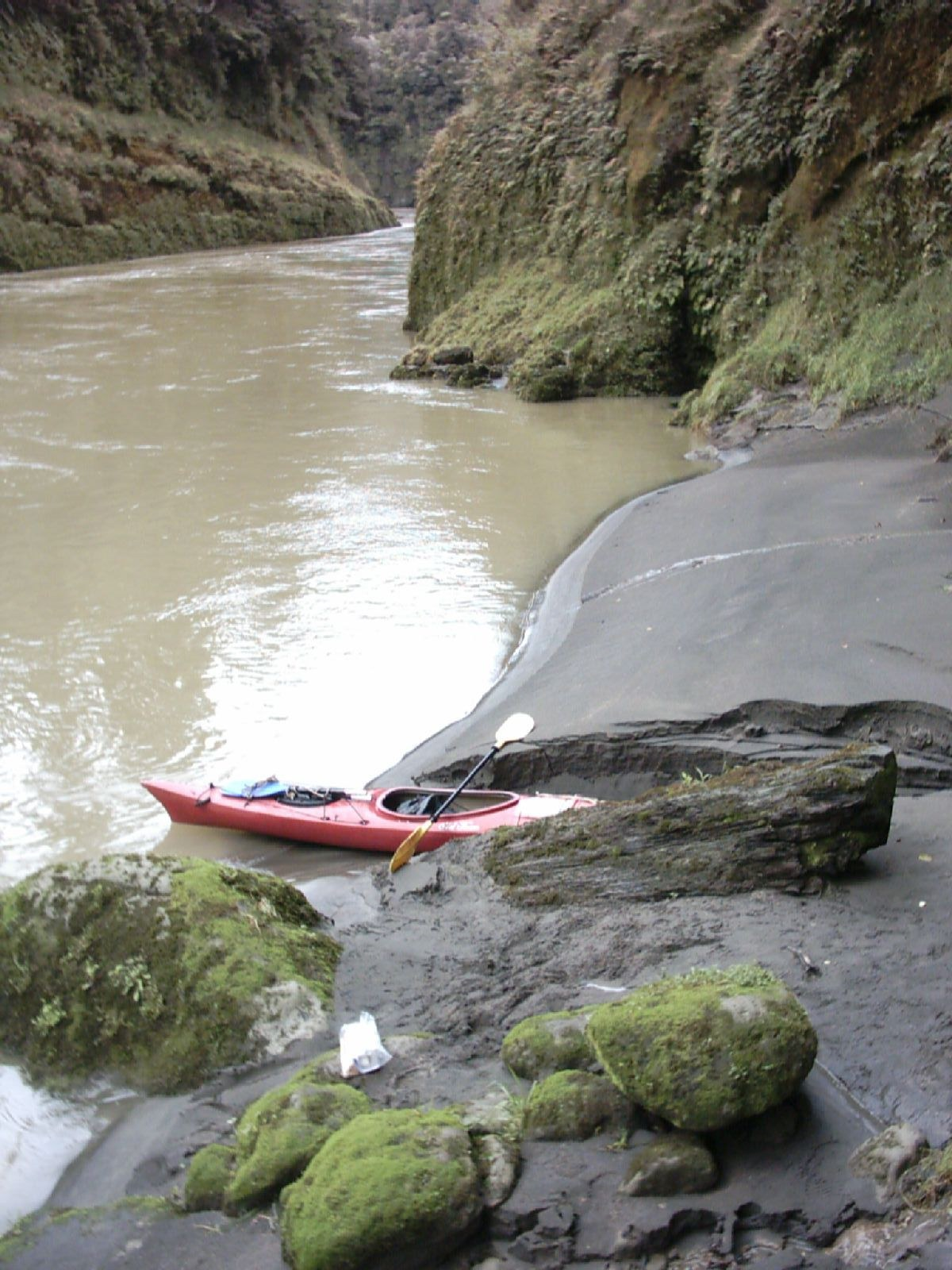 Kayak at the Mangawaiiti (?) campsite, which lies above a steep cliff above the Whanganui River, New Zealand.